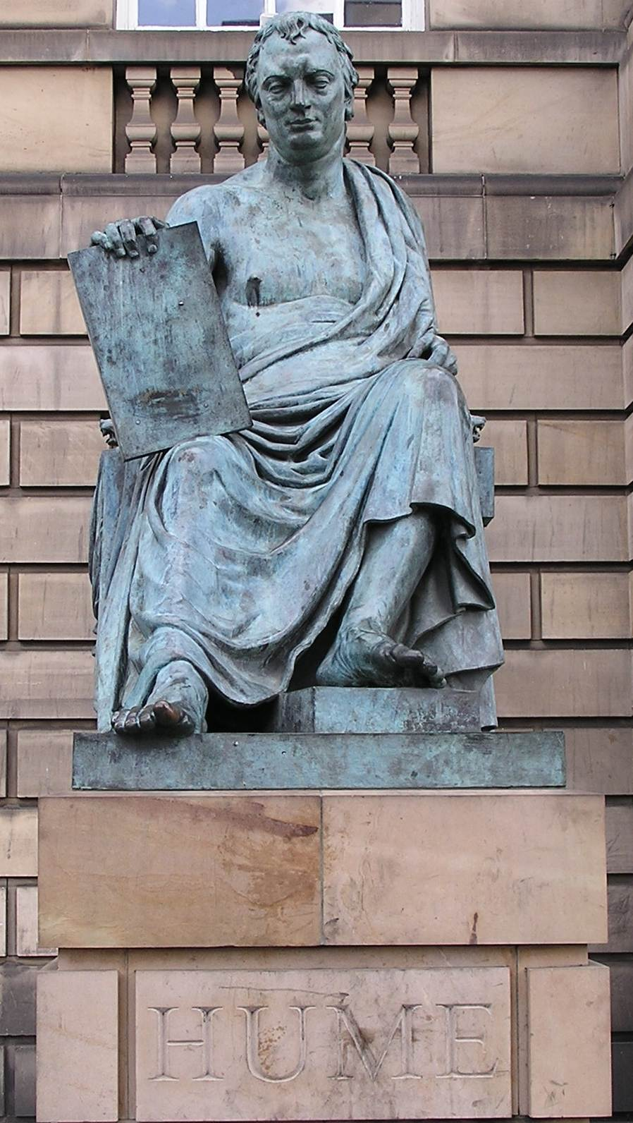 Statue of David Hume, by Alexander Stoddart. Taken by Storkk in Edinburgh, Scotland.